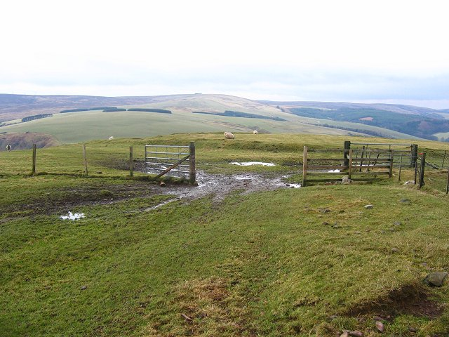 Hillfort, Blackcastle Hill. According to the OS, it was unfinished. Atlas of Hillforts number 3927